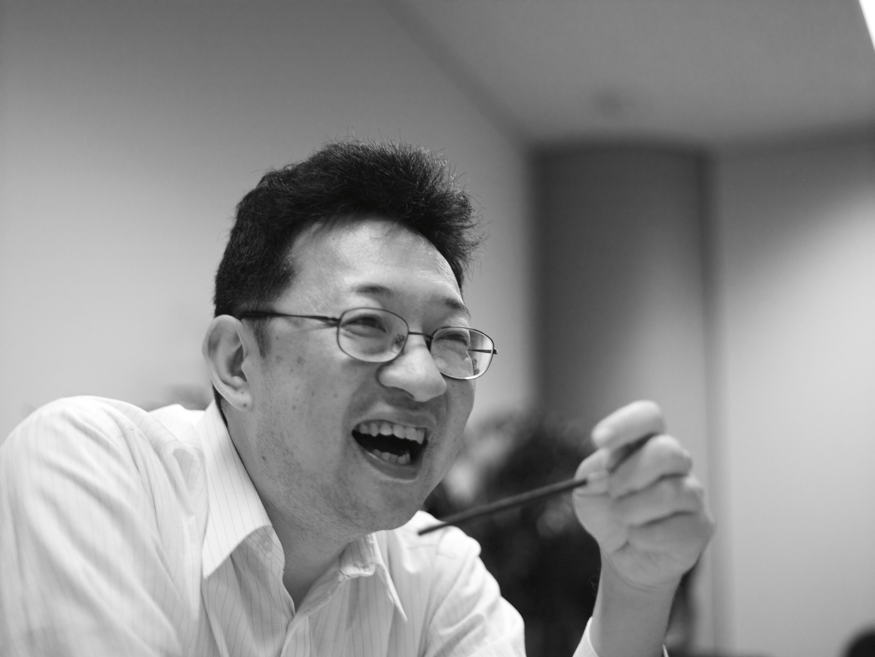 Hiroaki Kitano, Father of the Aibo.